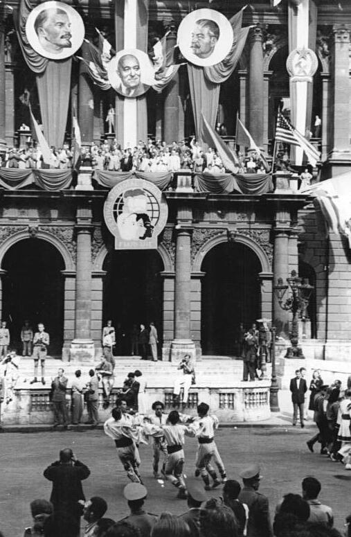 Romanian delegaion at the 1949 World Festival of Youth and Students (Budapest)